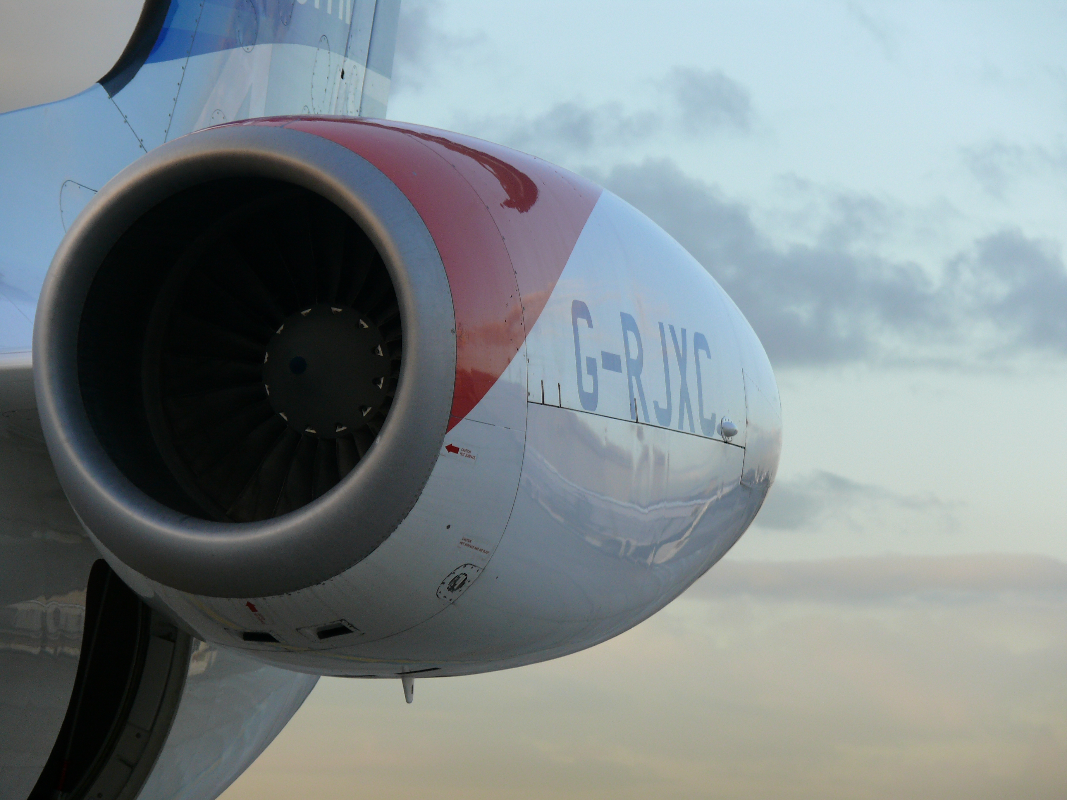 Motor (Allison AE 3007/A1/1) of BMI Regional G-RJXC Embraer EMB145EP (ERJ145) at at Zaventem Brussels Airport.